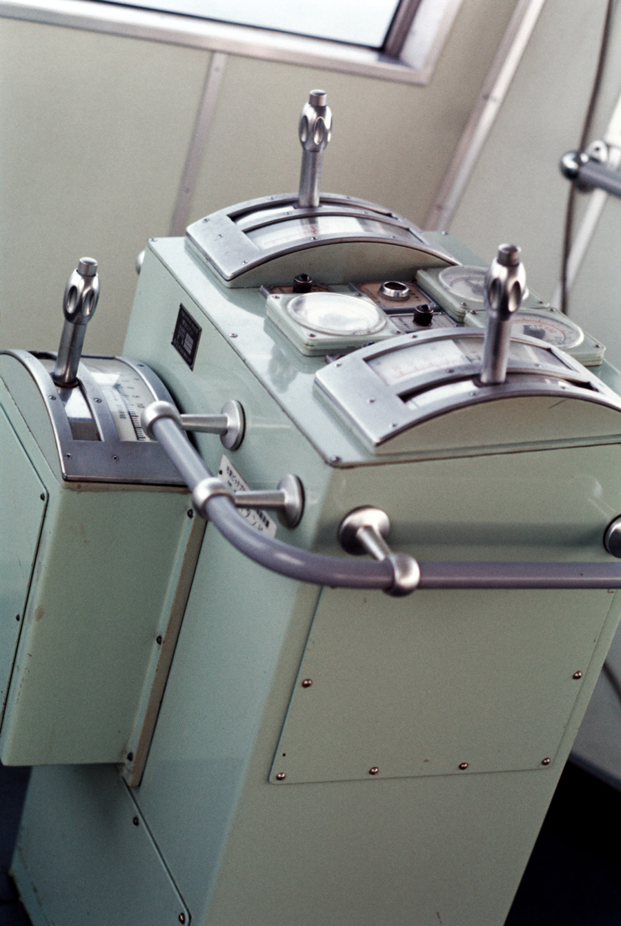 MS TOWADA MARU2 Auxiliary propeller control stand on the port end of the wheel house